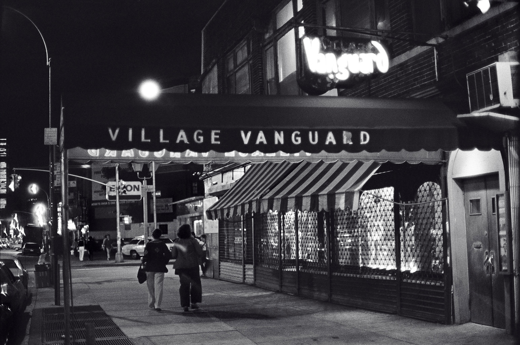 Village Vanguard 1976 Looking Downtown